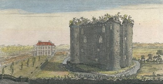 NE view of Nunney Castle